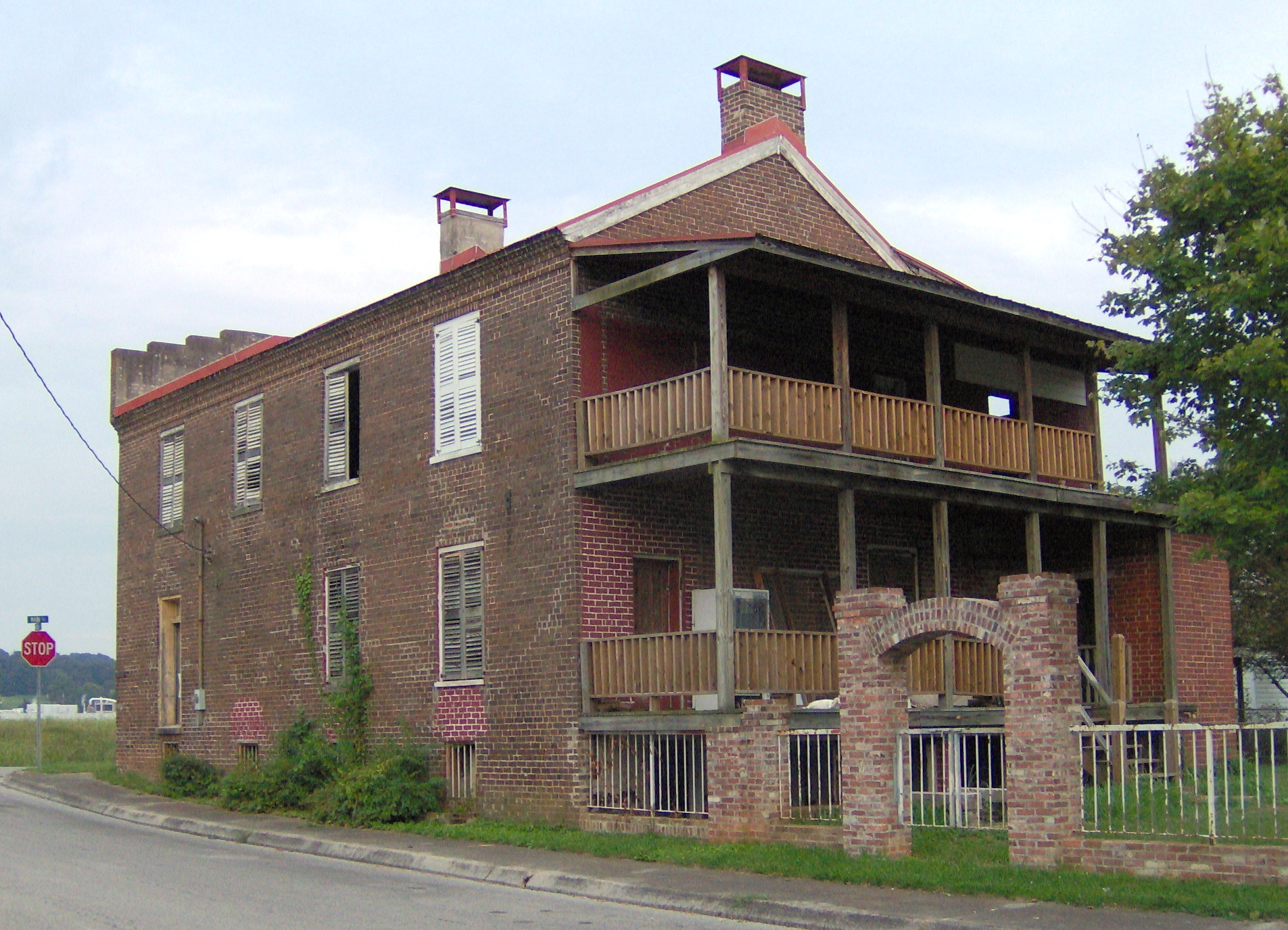 Rear-view of the Blair's Ferry Storehouse in Loudon, Tennessee, USA.